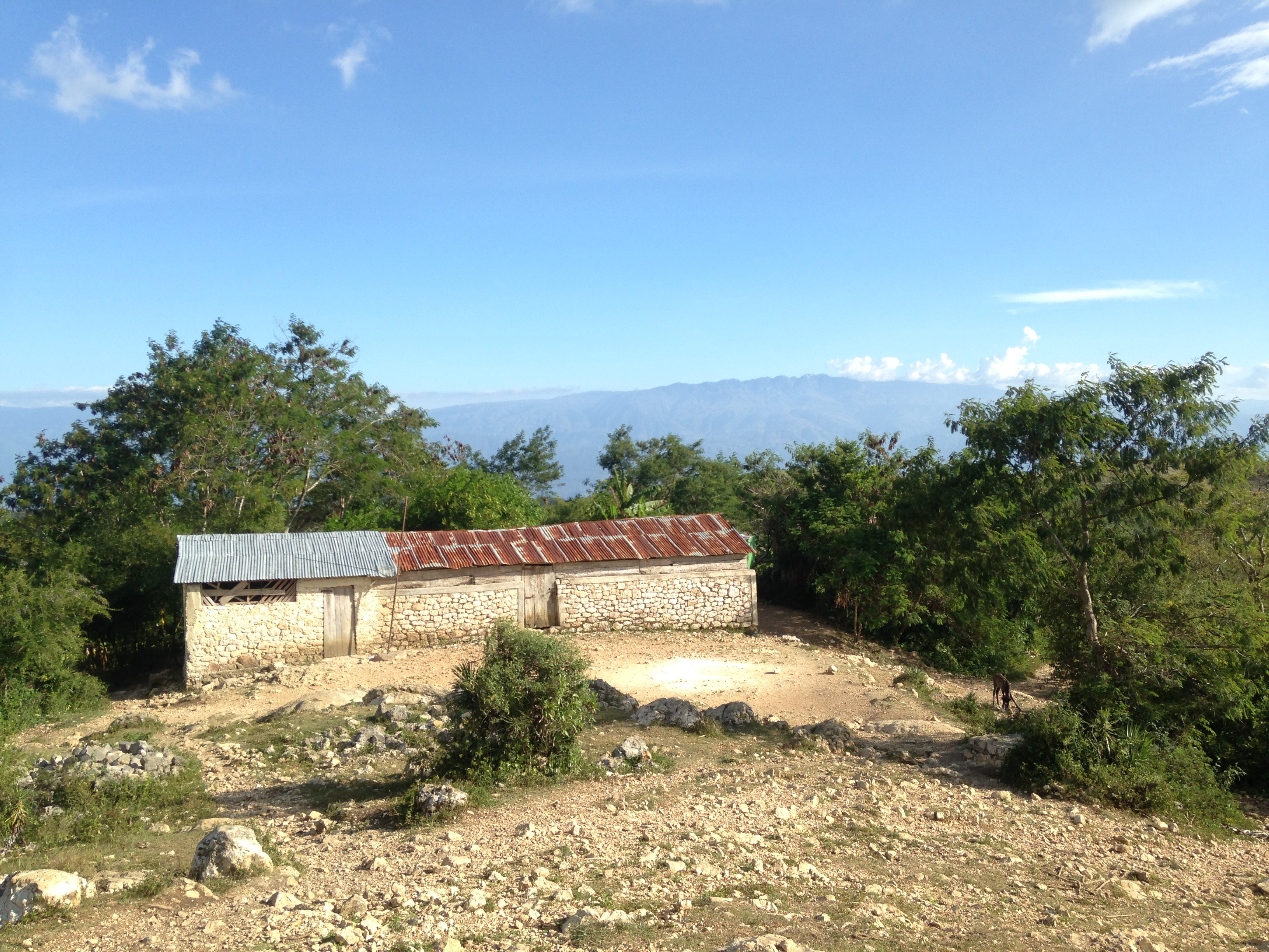 A school building in Grand-Bois, in the Haitian municipality (commune) of Cornillon. The mountains in the back of the photo are located in the Dominican Republic.